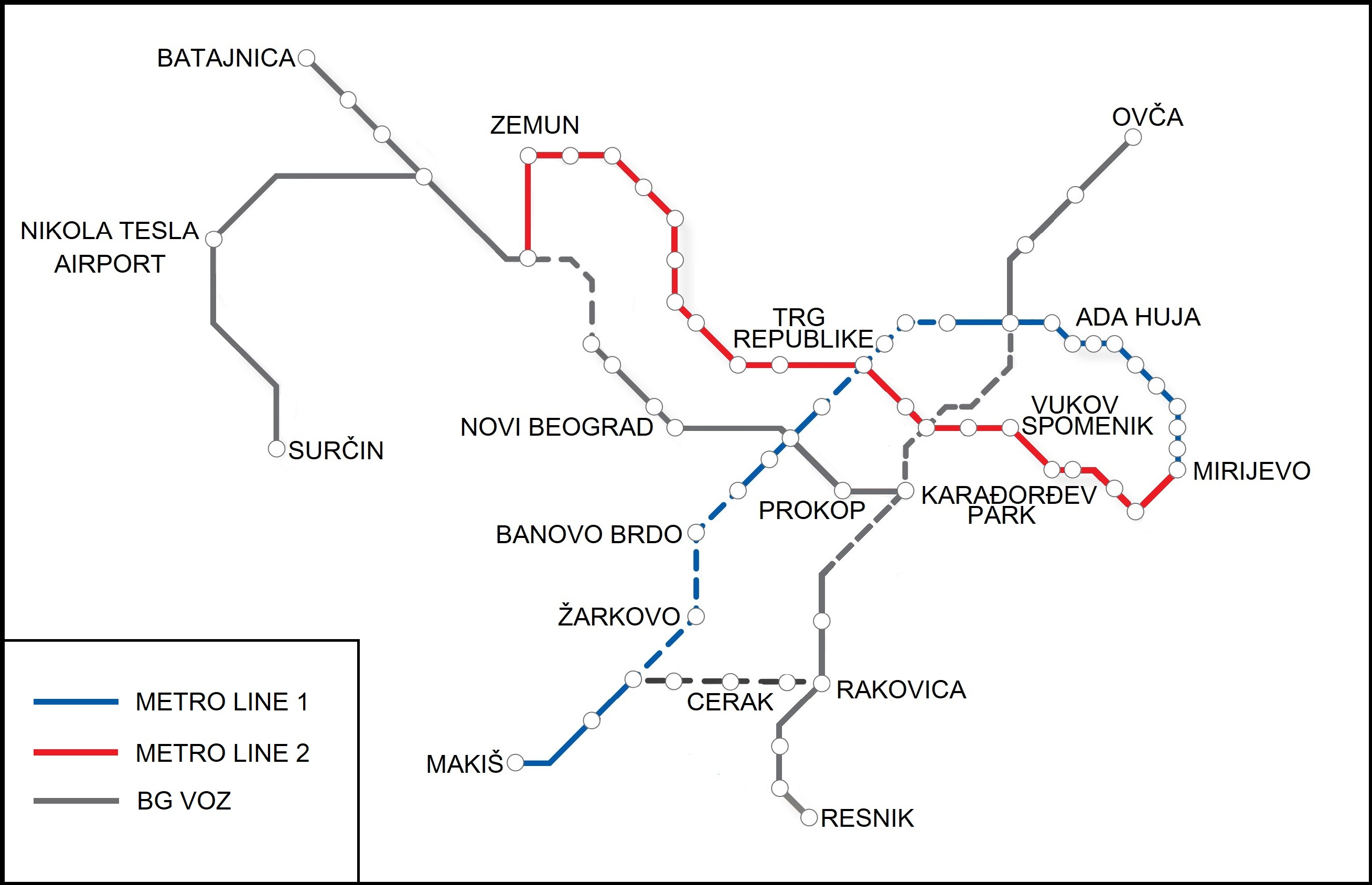 Proposed metro lines in 2018 Metro line 1 Metro line 2 Bg voz